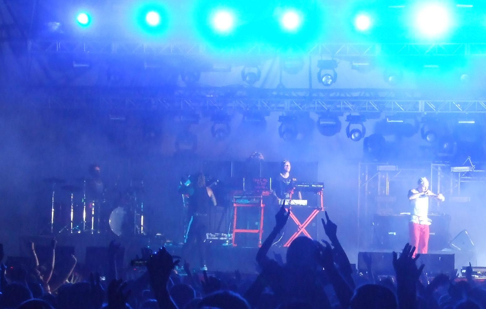 The Prodigy live at the Cokelive Peninsula festival in Romania on 26 July 2009.